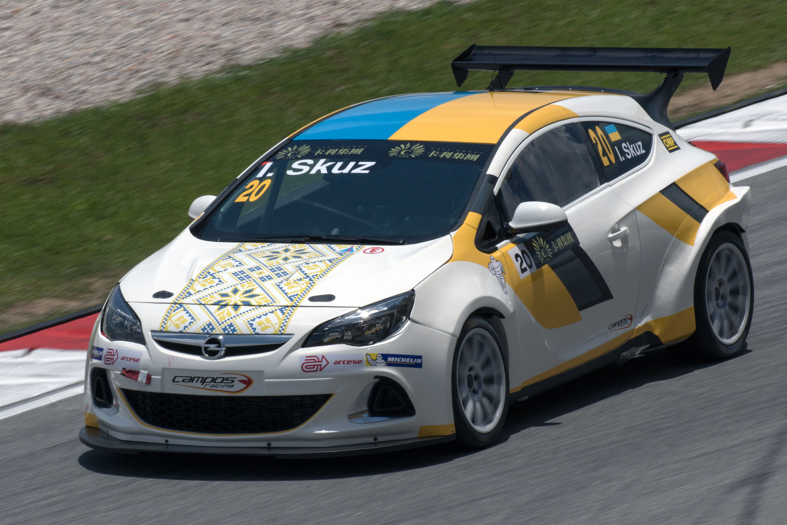 TCR International Series 2015 Rd.1 Malaysia: Igor Skuz (Campos Racing)